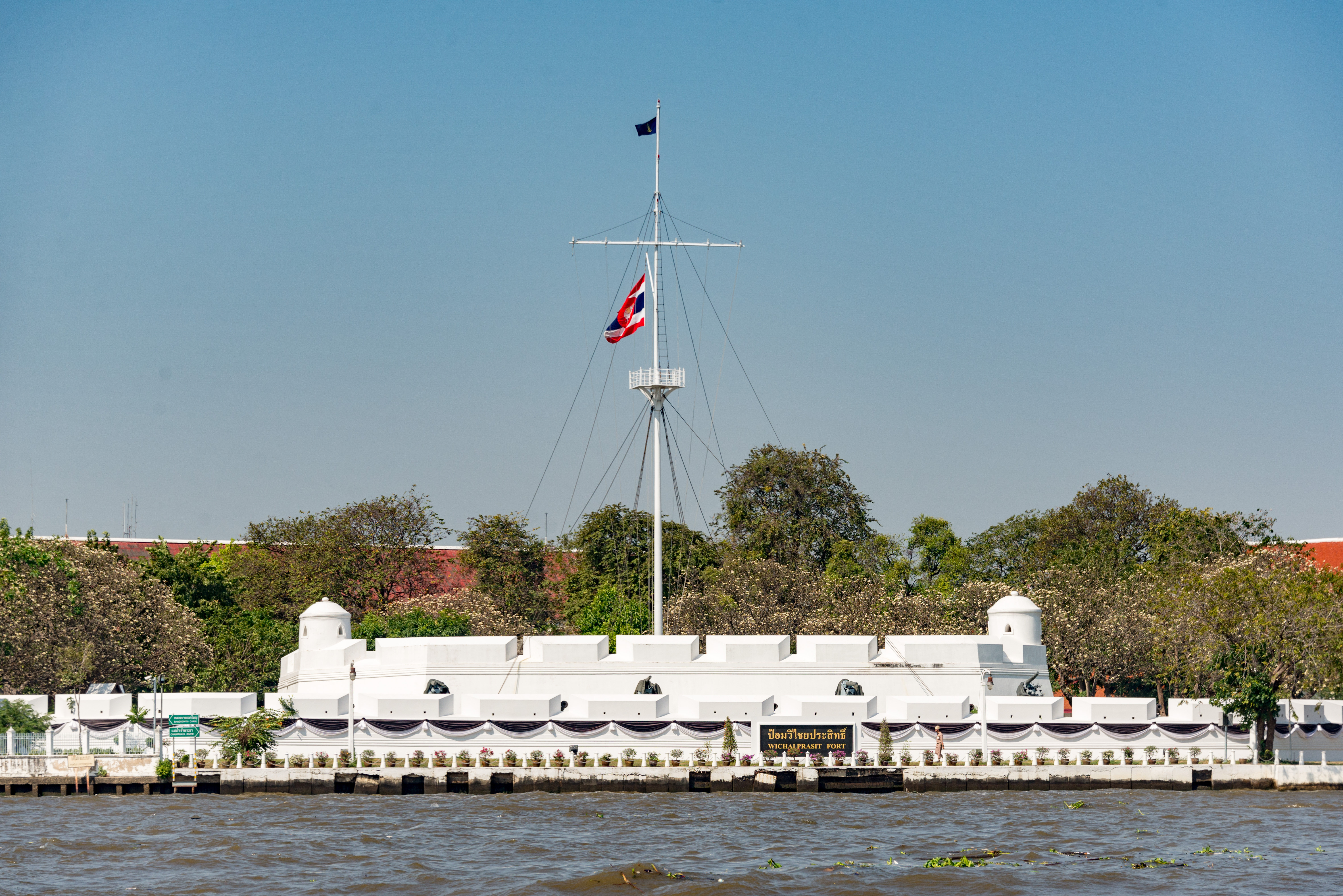 The Wichaiprasit Fort in Bangkok, seen from the Chao Phraya River